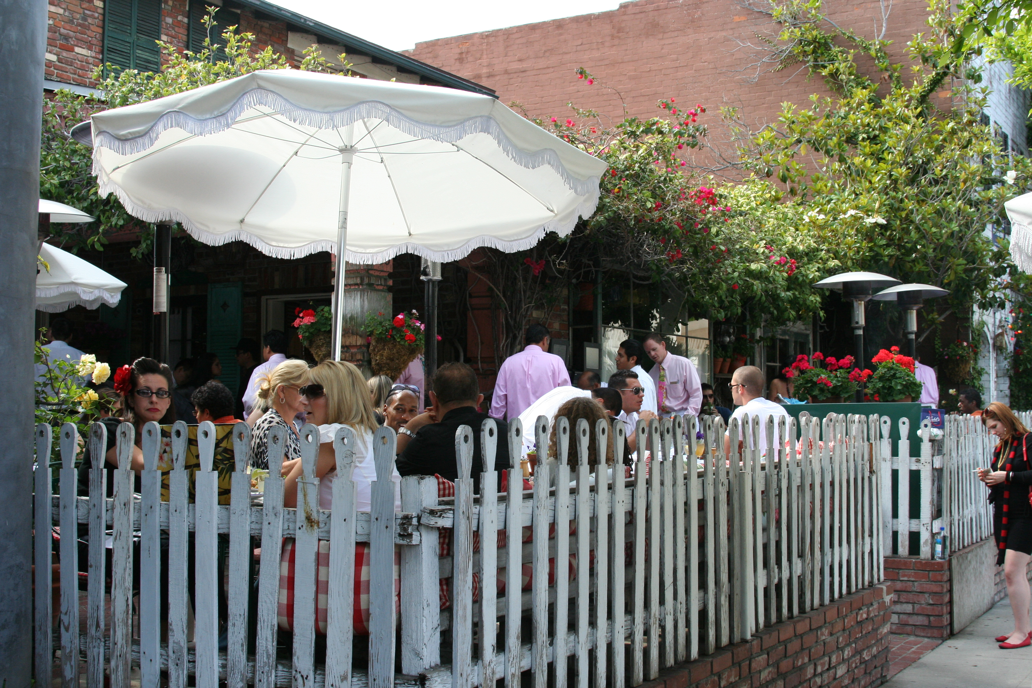 The Ivy restaurant on Robertson Boulevard, Los Angeles, 2009